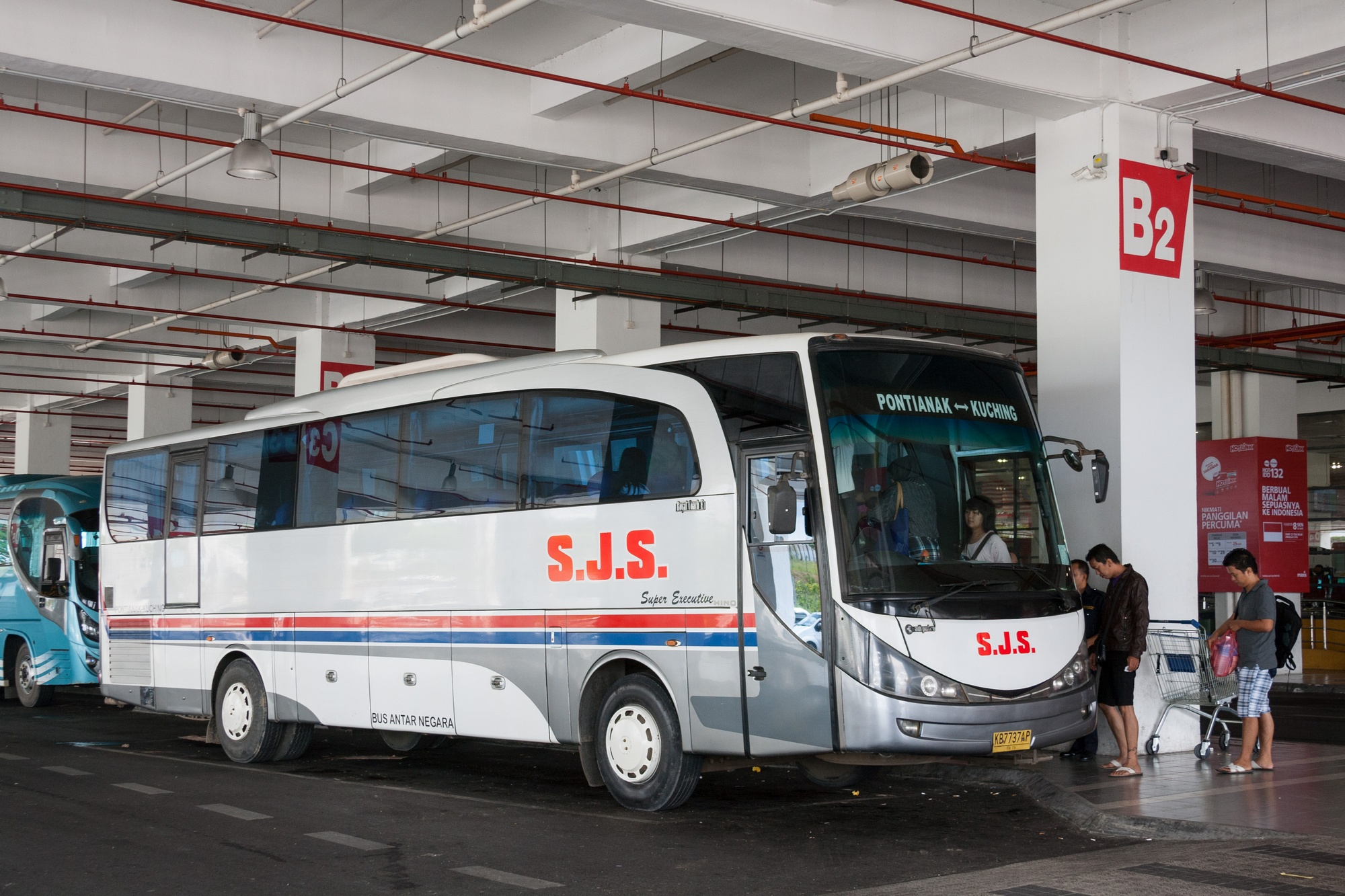 Indonesian coach serving route Pontianak - Kuching at Kuching Sental, Kuching, Sarawak, Malaysia. Bodywork: Adi Putro Royal Coach E Chassis: Hino RK